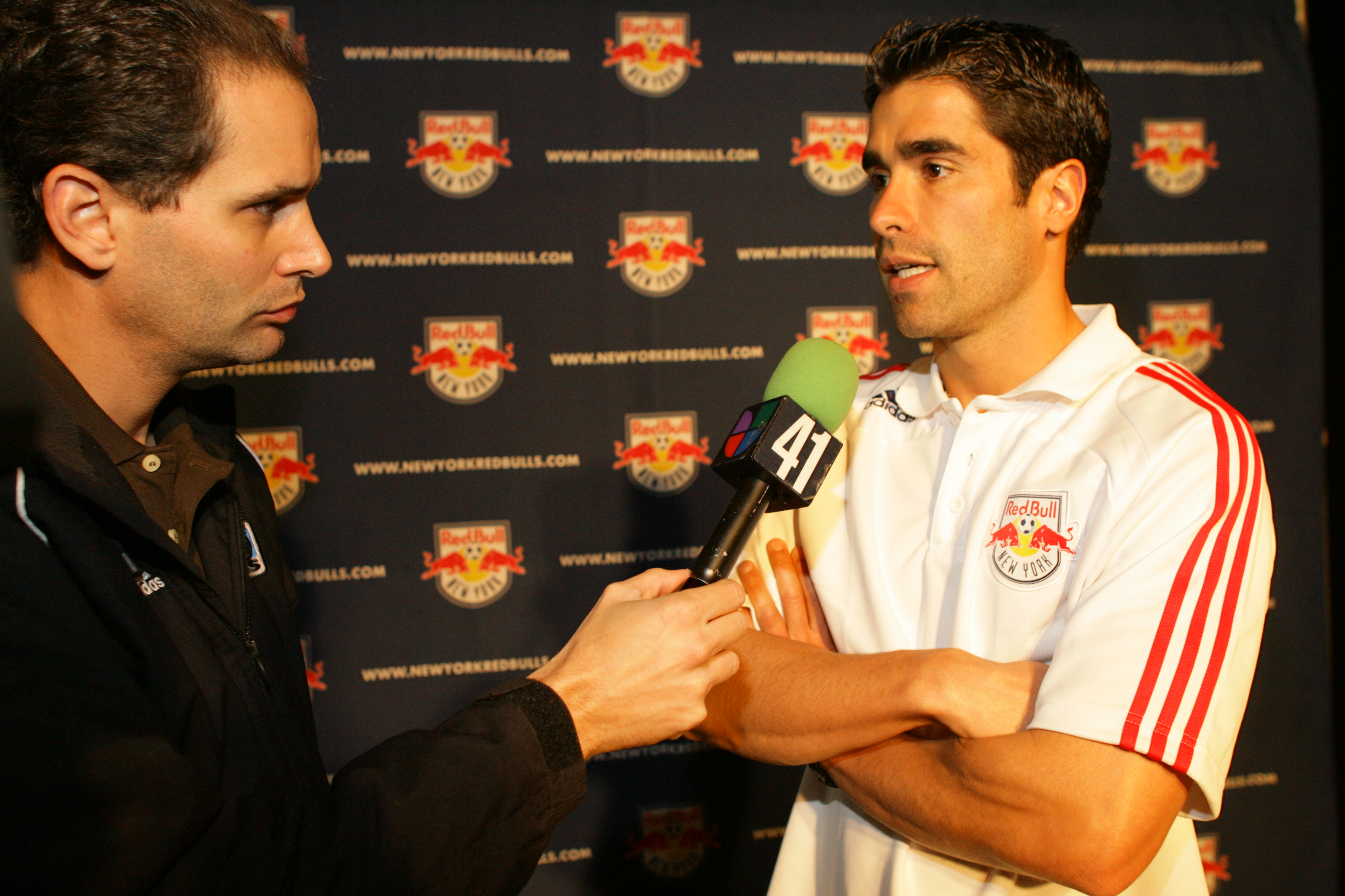 Juan Pablo ANGEL #9, Forward